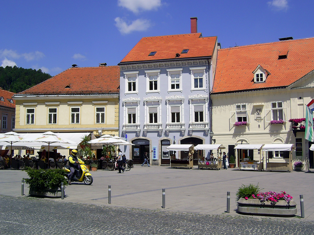 This square is the heart of Samobor with beautiful buildings, lots of cafés and restaurants, the view of the St. Anastazija church and Gradna river. Since it is on a short distance from Zagreb (20 km), the town of Samobor is crowded with local tourists during the weekends.